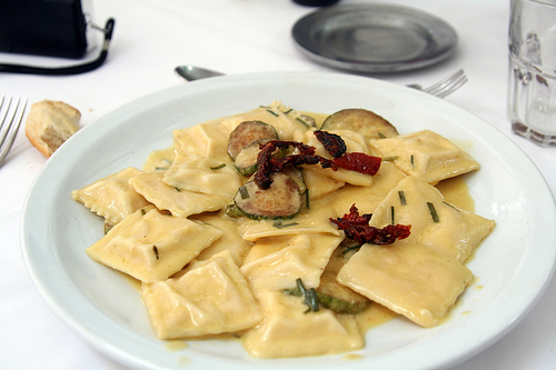 homemade pasta with salmon in it, and dried tomatoes